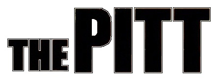 Logo for the Fallout 3 DLC "The Pitt"